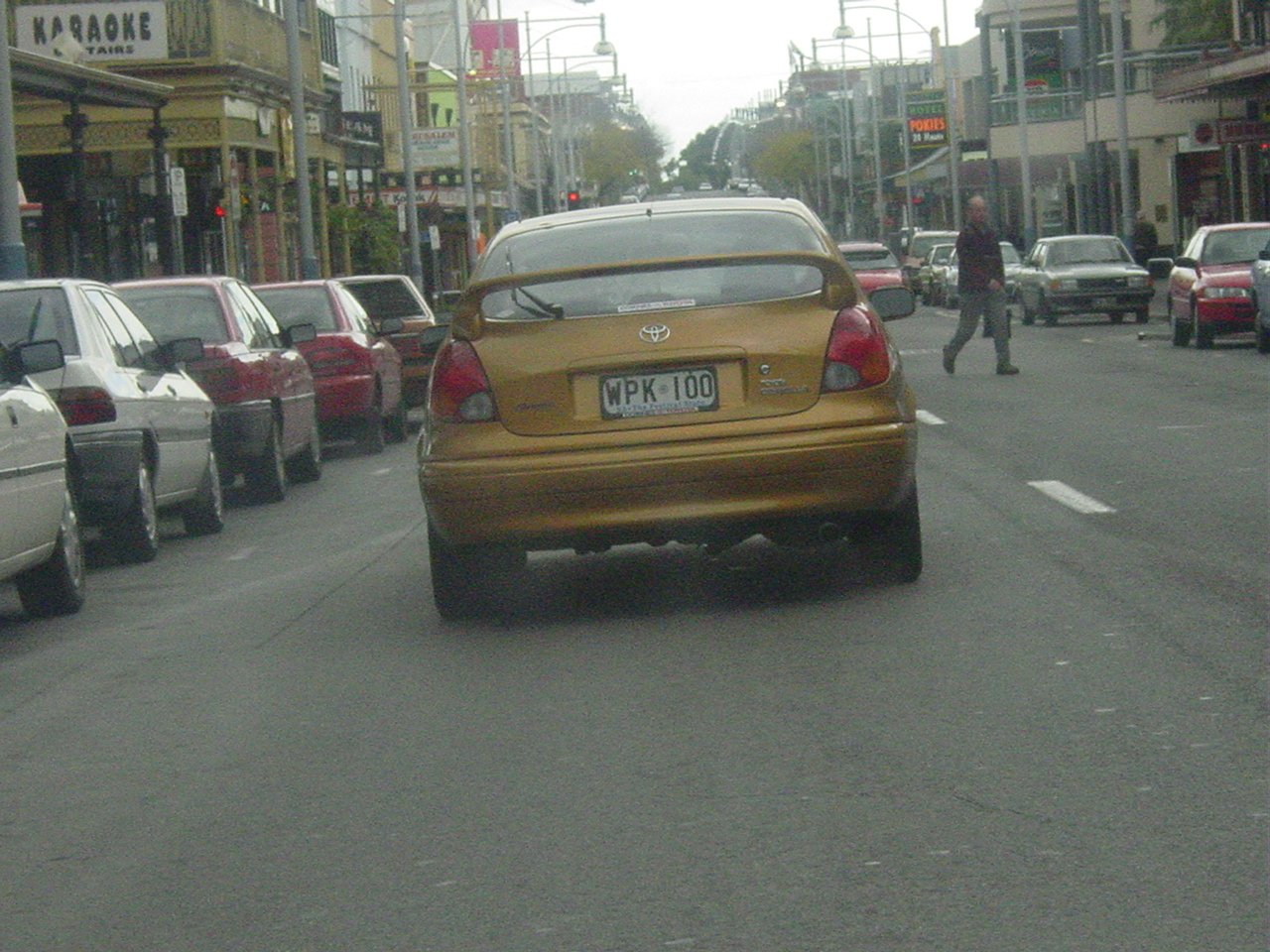 Toyota was bereft of interesting models by 2000. Toyota Australia wanted something a bit more interesting so came up with these unique 1.8L turbocharged Sportivo models in 2001. It was developed officially with Toyota Japan co-operation and in fact partly assembled there with suspension development done locally in Australia. Power was a relatively modest 115kw going through the front wheels, and at the time they were fairly expensive for what they were and not that quick. They only made around 100 or so and all in that horrible gold colour. Nonetheless and interesting and rare car.